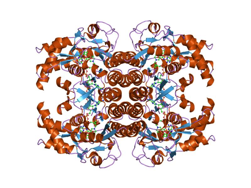 Cartoon representation of the molecular structure of protein registered with 1rpn code.